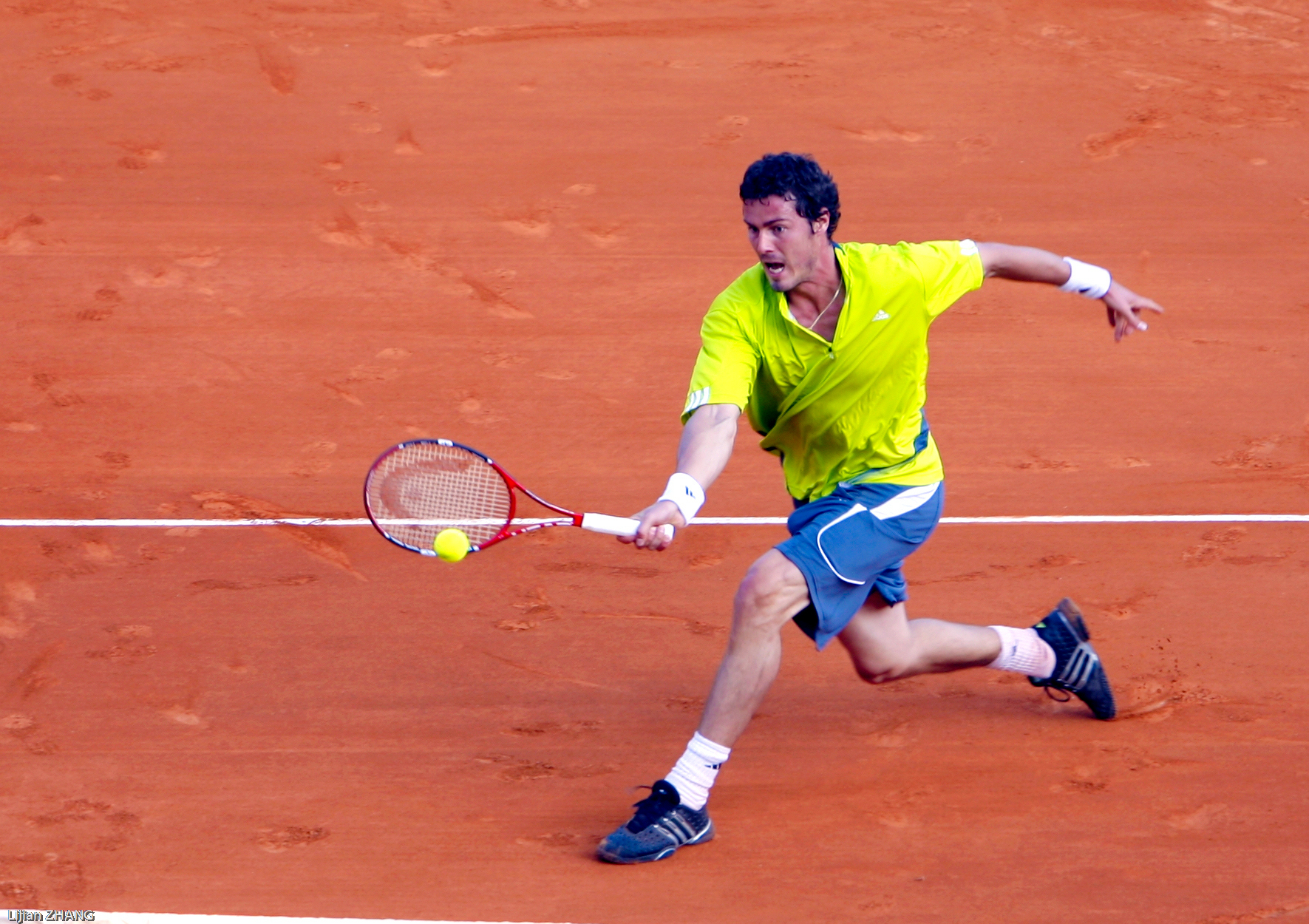 Marat Safin, Master Series Monte Carlo 2007